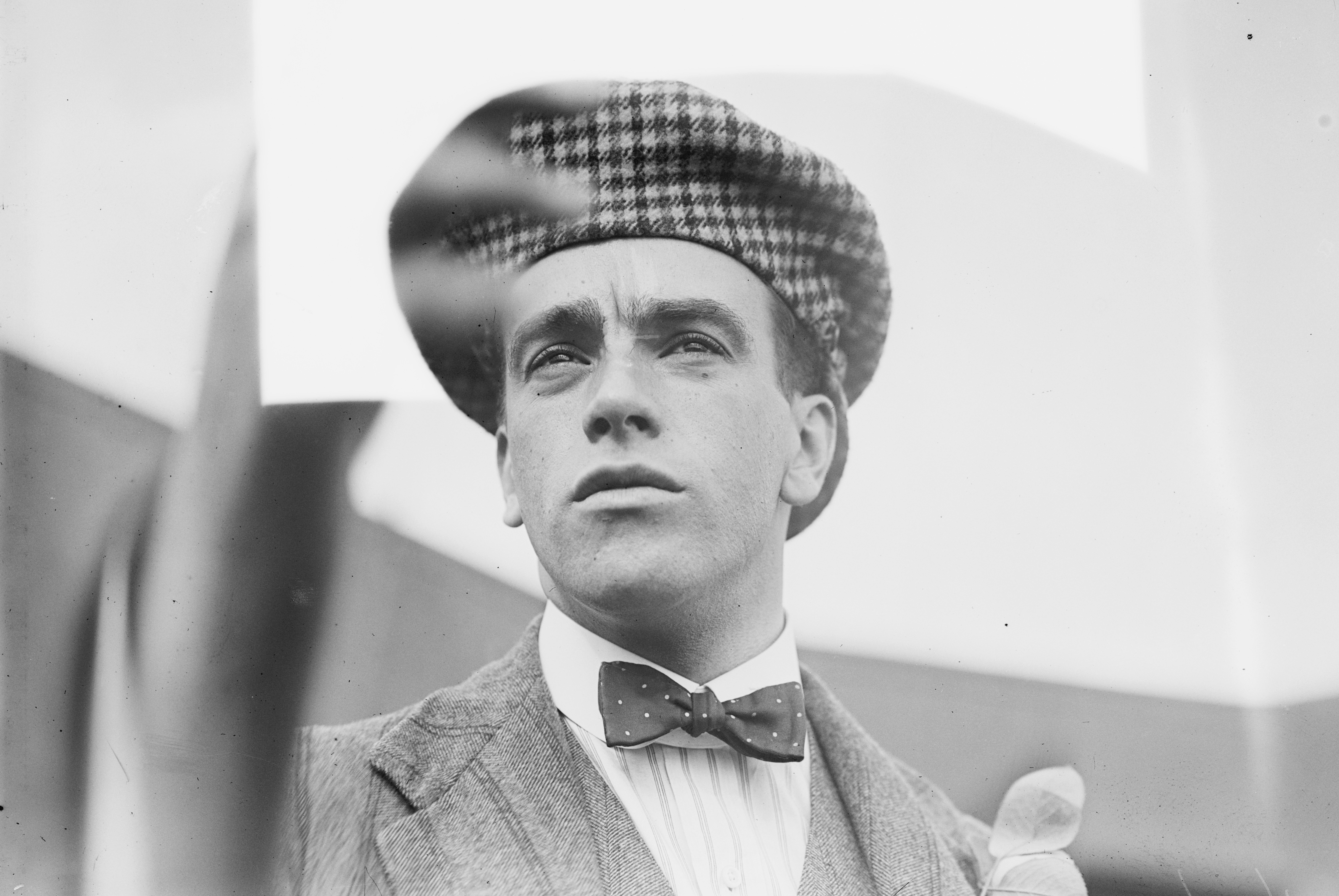 Claude Grahame-White (1879 – 1959) was a pioneer of aviation, and the first to make a night flight, during the Daily Mail London to Manchester race in 1910.